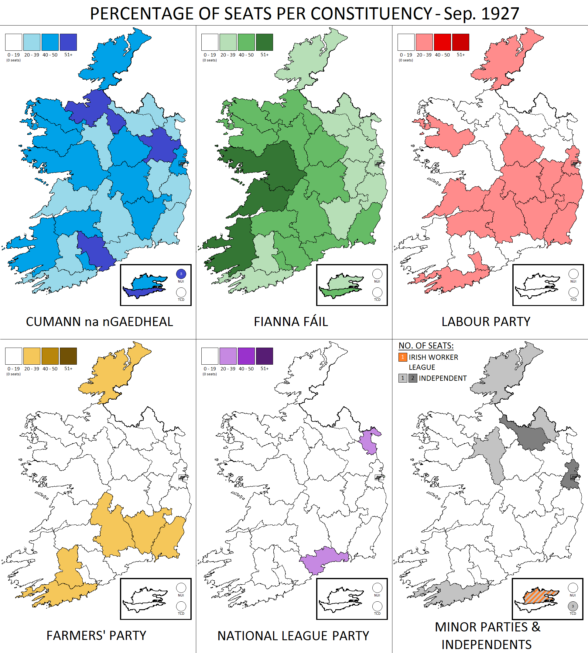 Graphical representation of the September 1927 Irish general election results. Created by myself using data from Wikipedia and literary sources.